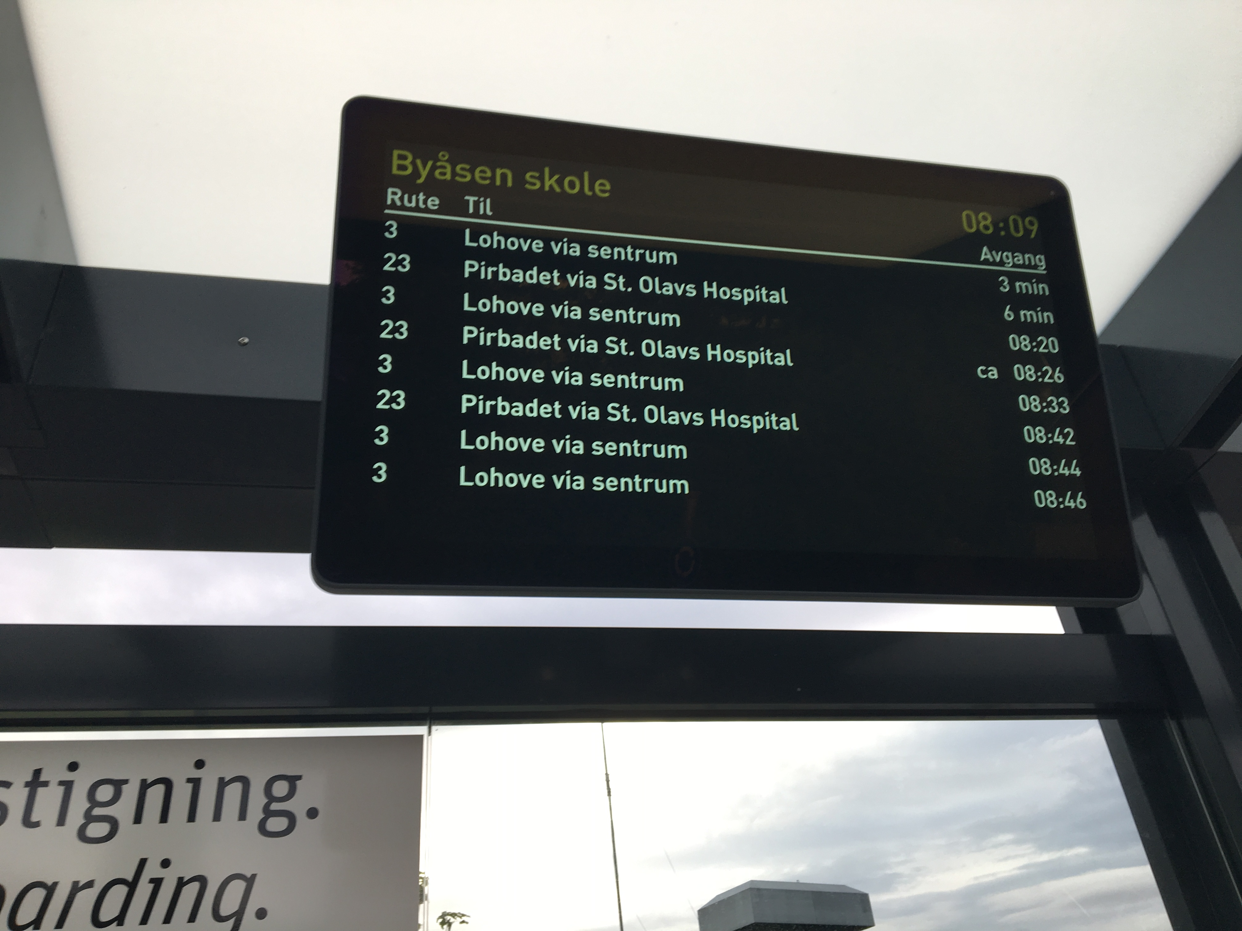 This is a AtB Info Screen located at bus stop Byåsen Skole.